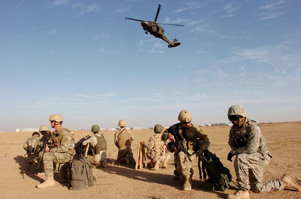 US and Iraqi Army Soldiers guard borders in Iraq